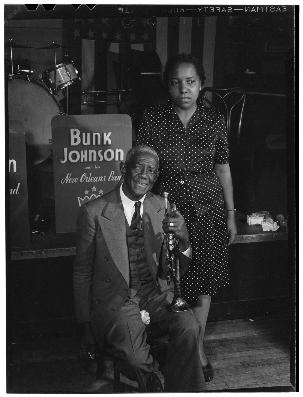 Gottlieb, William P., 1917-, photographer. [Portrait of Bunk Johnson and Maude Johnson, Stuyvesant Casino, New York, N.Y., ca. June 1946] 1 negative : b&w ; 3 1/4 x 4 1/4 in. Caption from Down Beat: Mr. & Mrs. Johnson. Bunk & Maude. Notes: Gottlieb Collection Assignment No. 207 Reference print available in Music Division, Library of Congress. Purchase William P. Gottlieb Forms part of: William P. Gottlieb Collection (Library of Congress). In: The Record Changer, v. 5, no. 4 (June 46, 1946), p. 18. Subjects: Johnson, Bunk, 1879-1949 Johnson, Maude Jazz musicians--1940-1950. Trumpet players--1940-1950. Stuyvesant Casino Format: Portrait photographs--1940-1950. Group portraits--1940-1950. Film negatives--1940-1950. Rights Info: Mr. Gottlieb has dedicated these works to the public domain, but rights of privacy and publicity may apply. Repository: (negative) Library of Congress, Prints & Photographs Division, Washington D.C. 20540 USA, (contact print) Library of Congress, Prints & Photographs Division, Washington D.C. 20540 USA, (reference print) Library of Congress, Music Division, Washington D.C. 20540 USA, Part Of: William P. Gottlieb Collection (DLC) 99-401005 General information about the Gottlieb Collection is available at Persistent URL: Call Number: LC-GLB13- 0455 This work is from the William P. Gottlieb collection at the Library of Congress. Rights and restrictions. In accordance with the wishes of William Gottlieb, the photographs in this collection entered into the public domain on February 16, 2010.